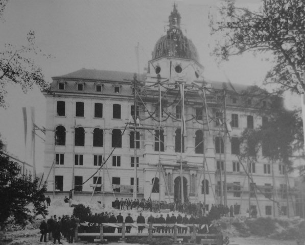 The former Gewerbemuseum in Nürnberg